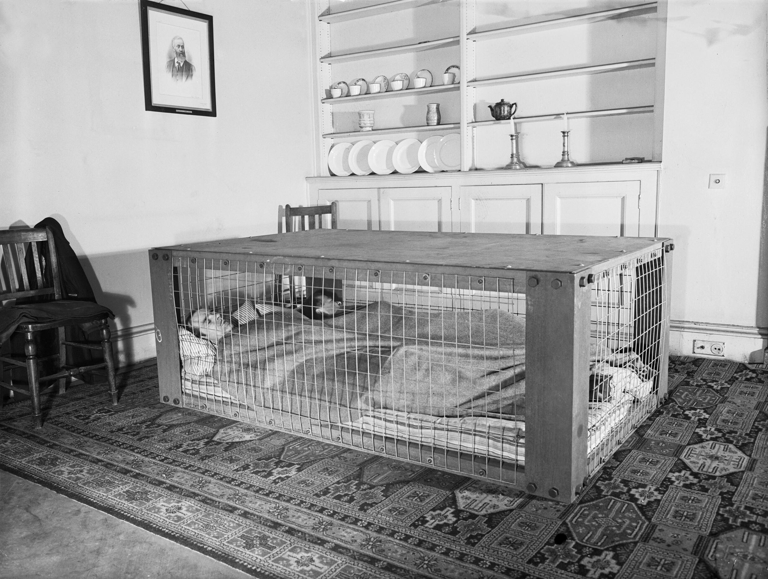 A couple sleeping in a Morrison shelter during the Second World War. A Morrison shelter in use.